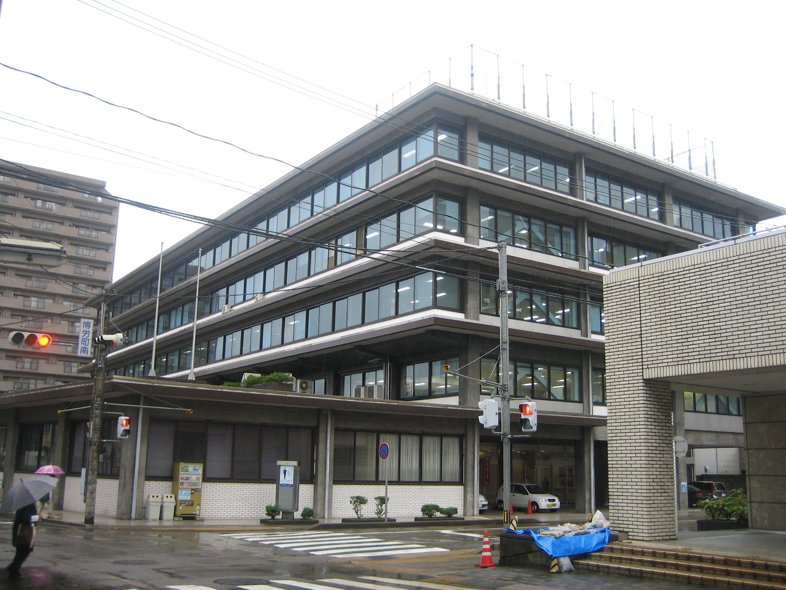 JP Group Kanazawa building